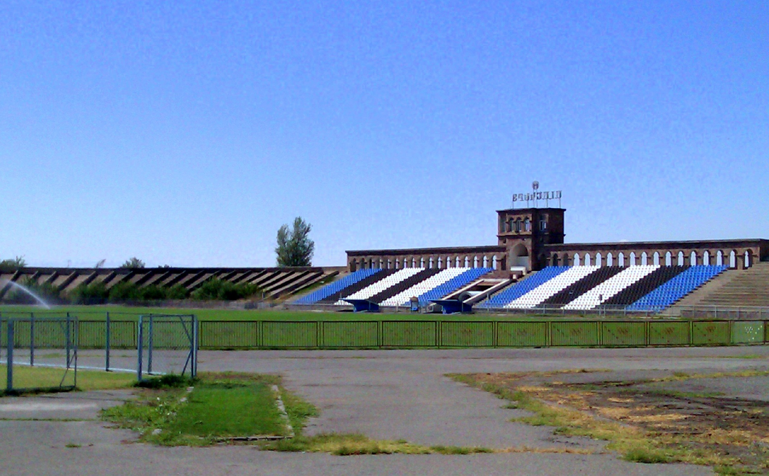 Nairi Stadium, Yerevan, Armenia.